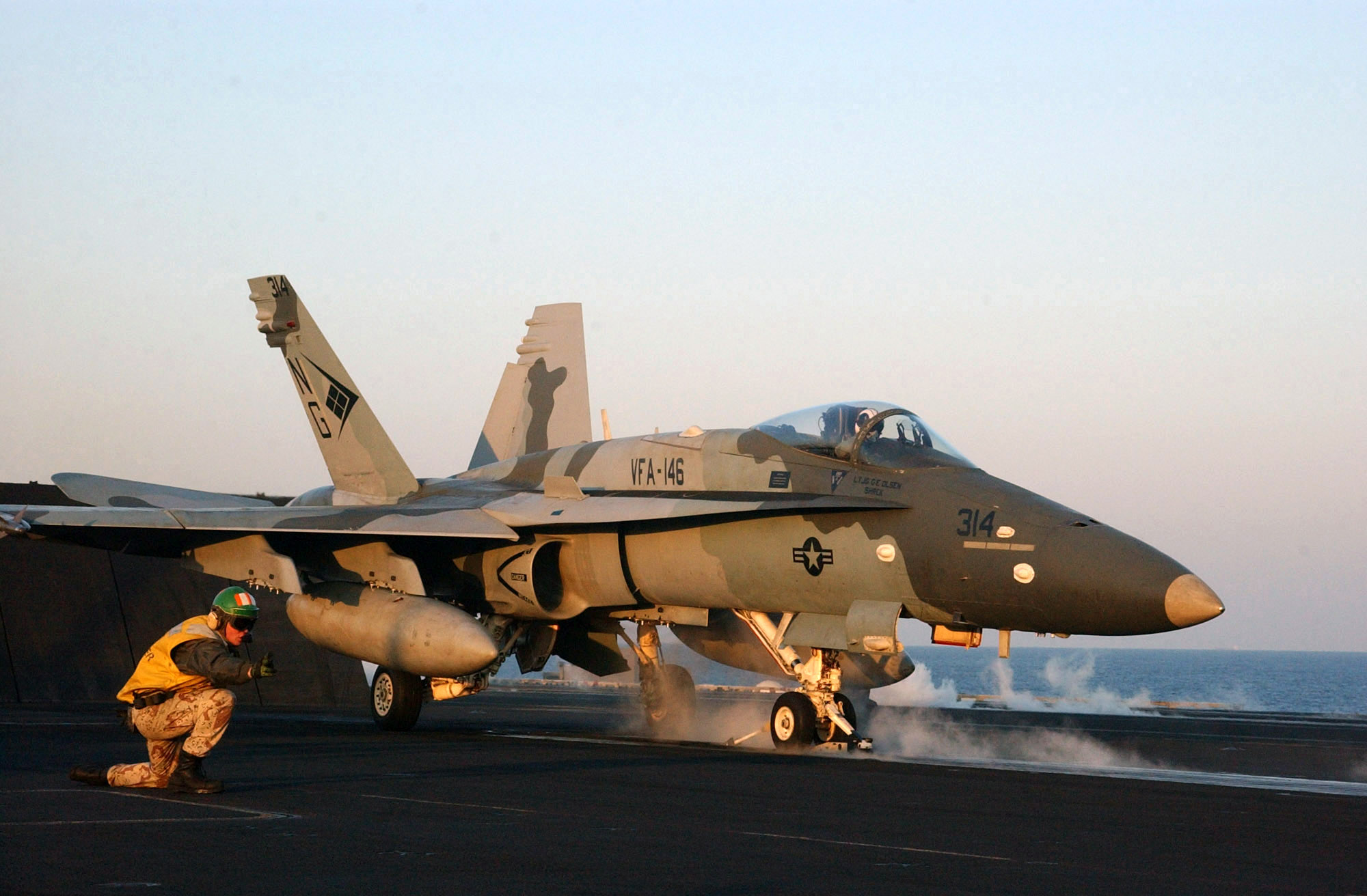 A 'Shooter' gives the signal to launch an F/A-18C Hornet from the "Blue Diamonds" of Strike Fighter Squadron 146 (VFA-146) from one of four steam driven catapults on the flight deck of the USS Carl Vinson (CVN-70) in the Sea of Japan.